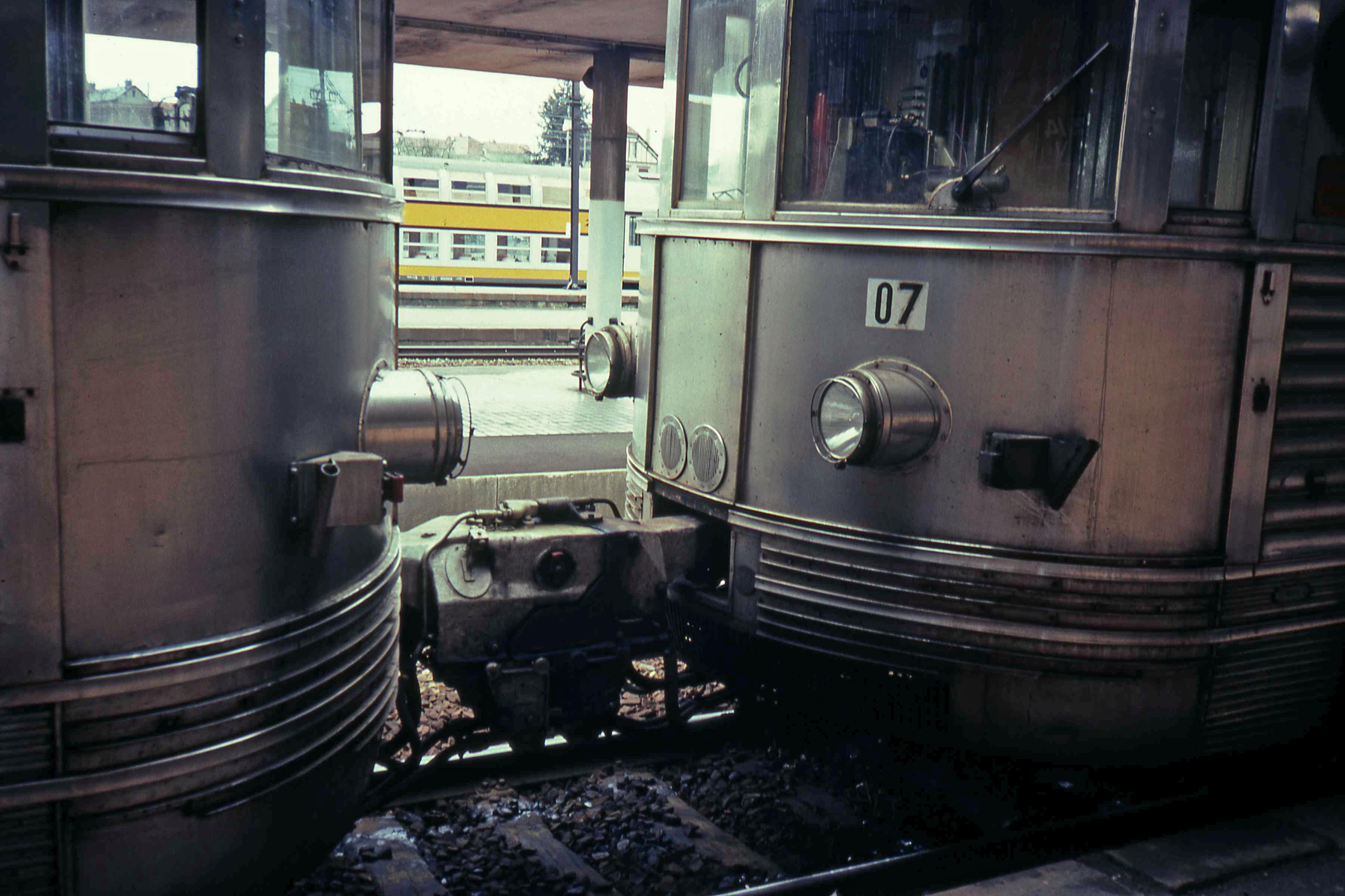 Old type of electric multiple unit in Gare Montparnasse. They have a special coupling.